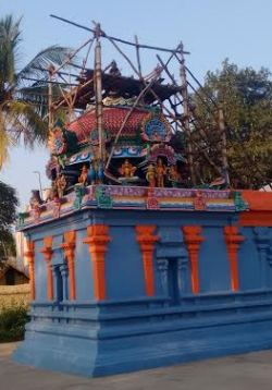 Vallam cholisvarar temple வல்லம் சோளீசுவரர் கோயில்